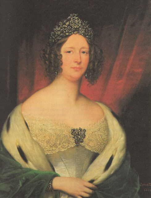 Caroline Amalie of Augustenburg (1796-1881), Queen of Denmark